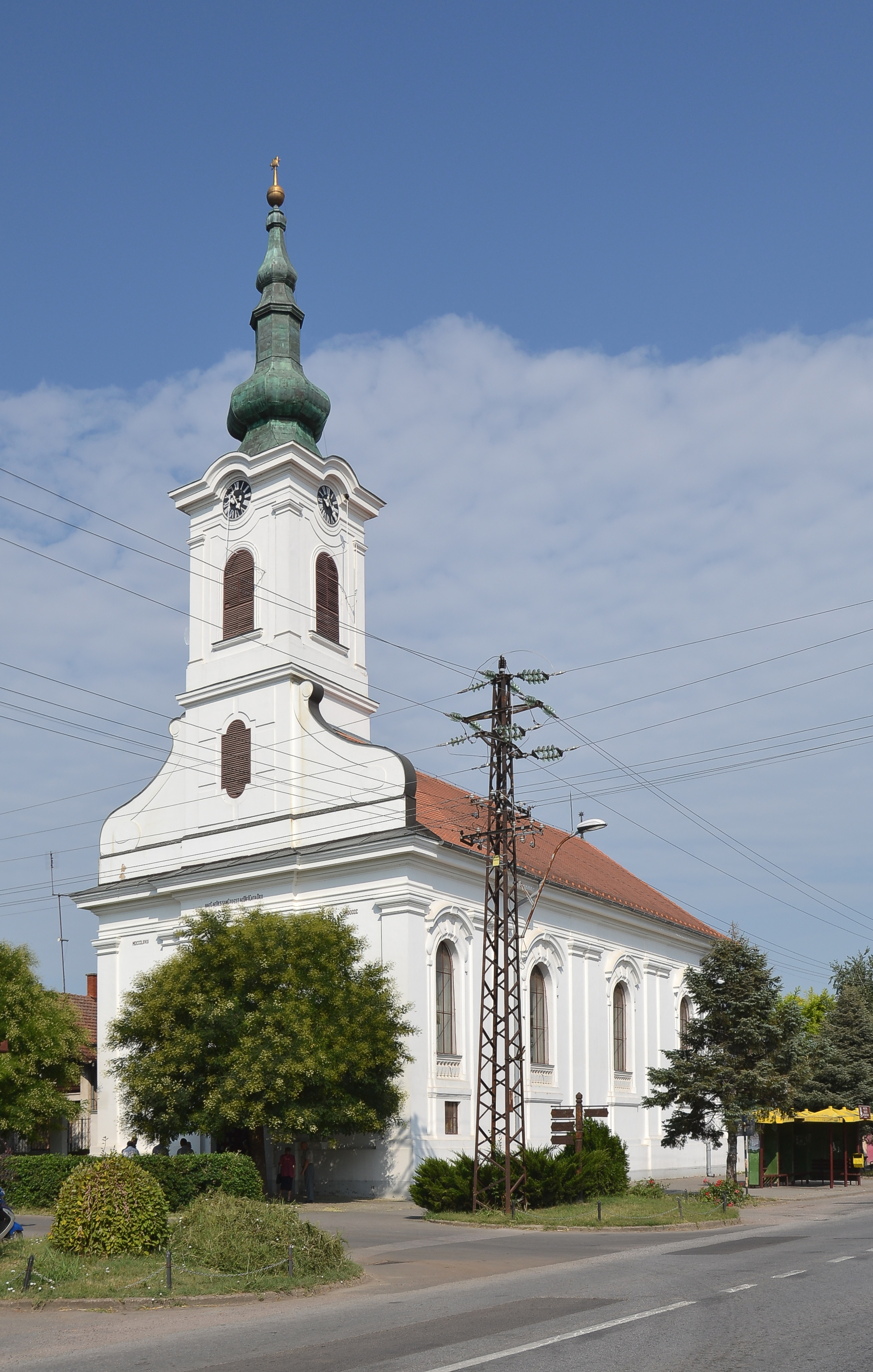 Feketić (Bácsfeketehegy, Schwarzenberg), Vojvodina - Calvinist church